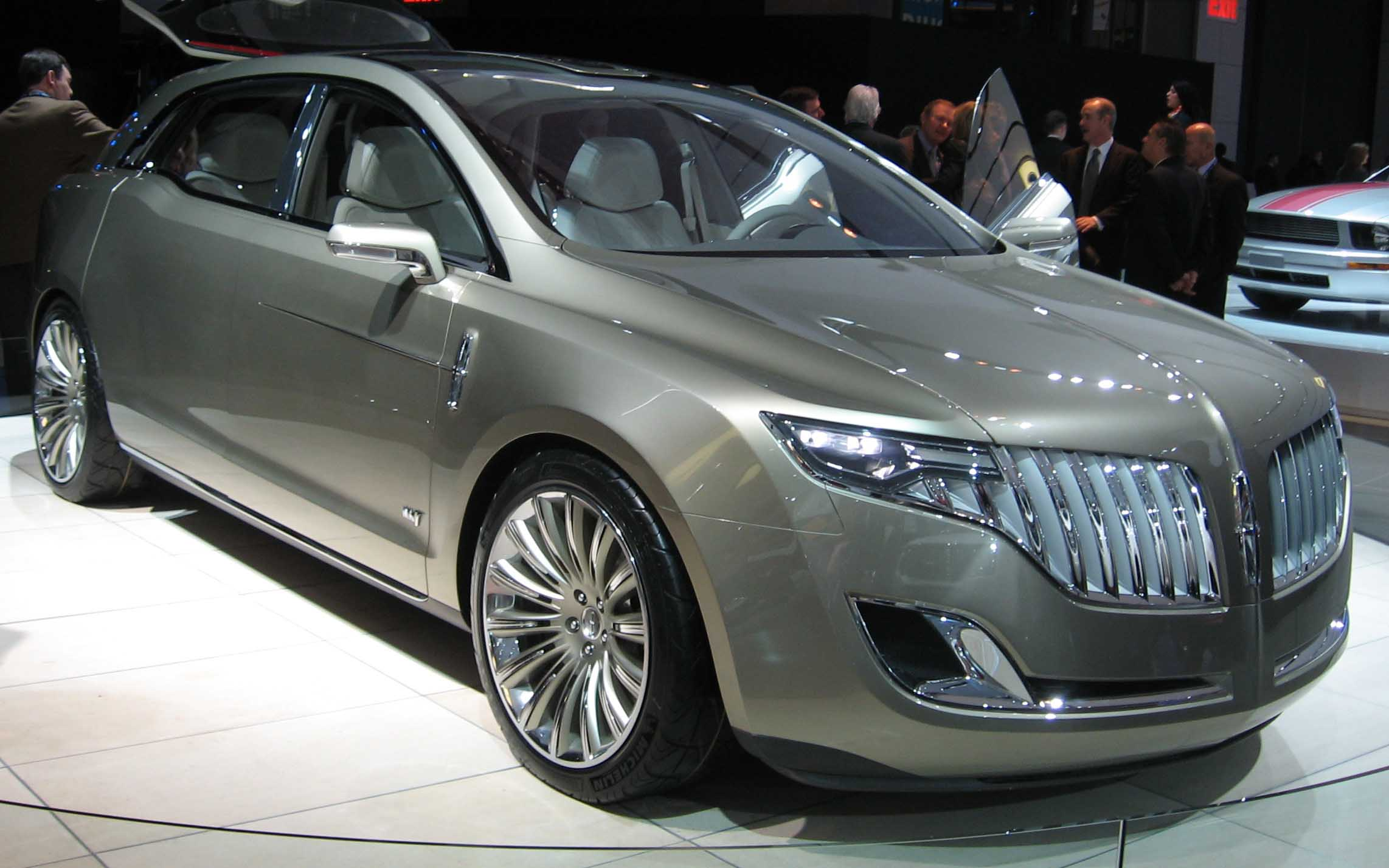 Lincoln MKT concept photographed at the 2008 New York Auto Show.